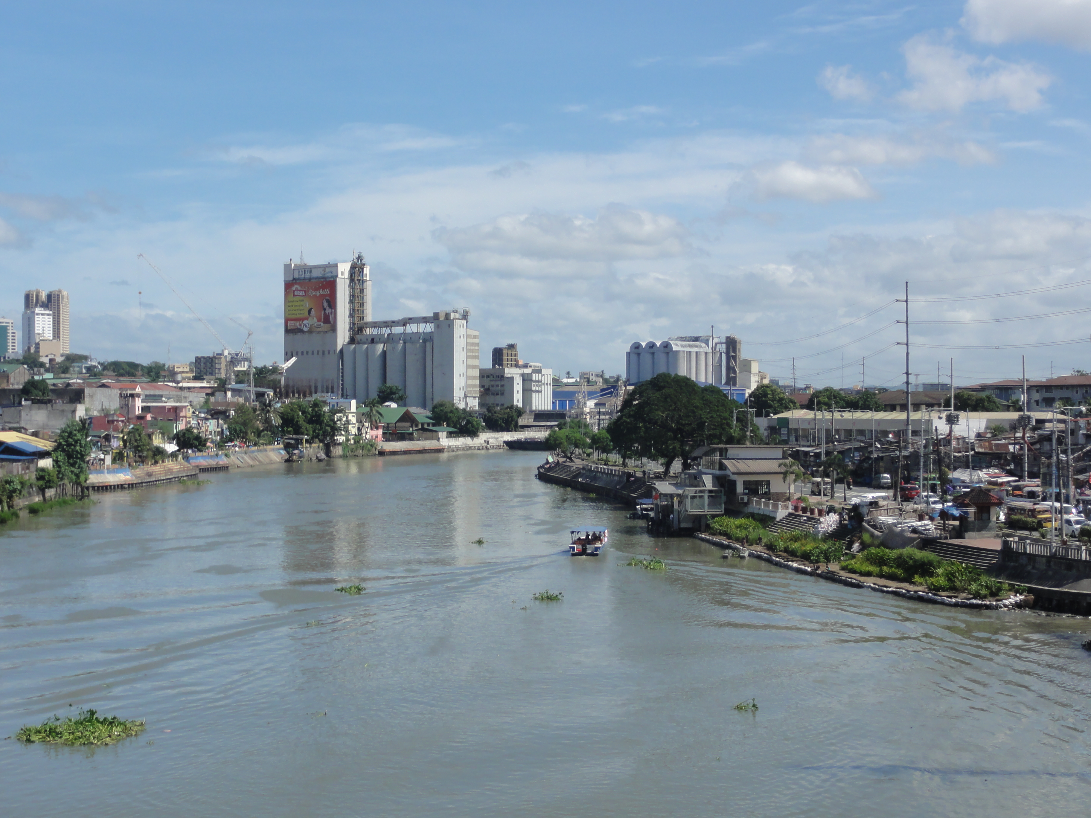 View of Pasig River along E. Delos Santos Avenue (EDSA), Guadalupe, Makati City, Metro Manila as of February 2015.